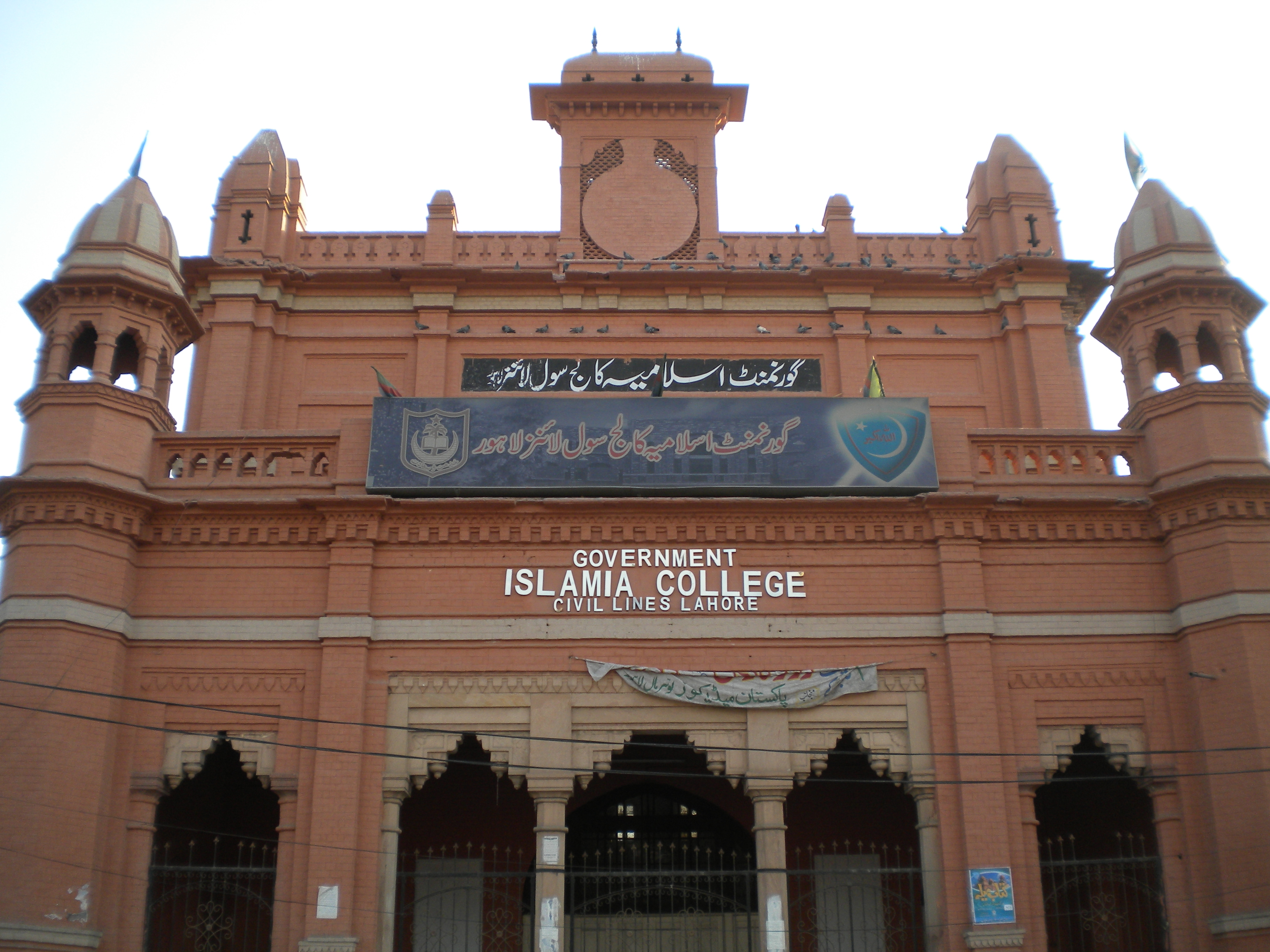 Facade of Islamia College Civili Lines, Lahore